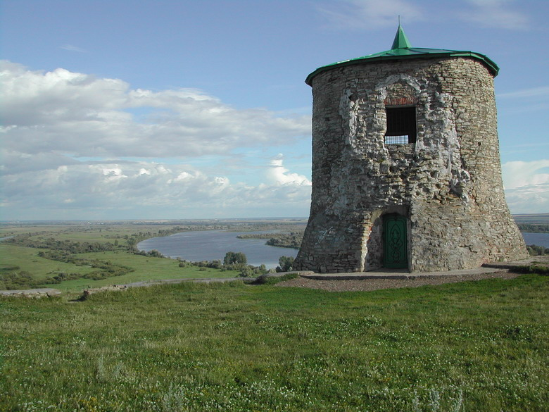 The medieval devil tower (Şaytan qalası) in Yelabuga (Tatarstan)